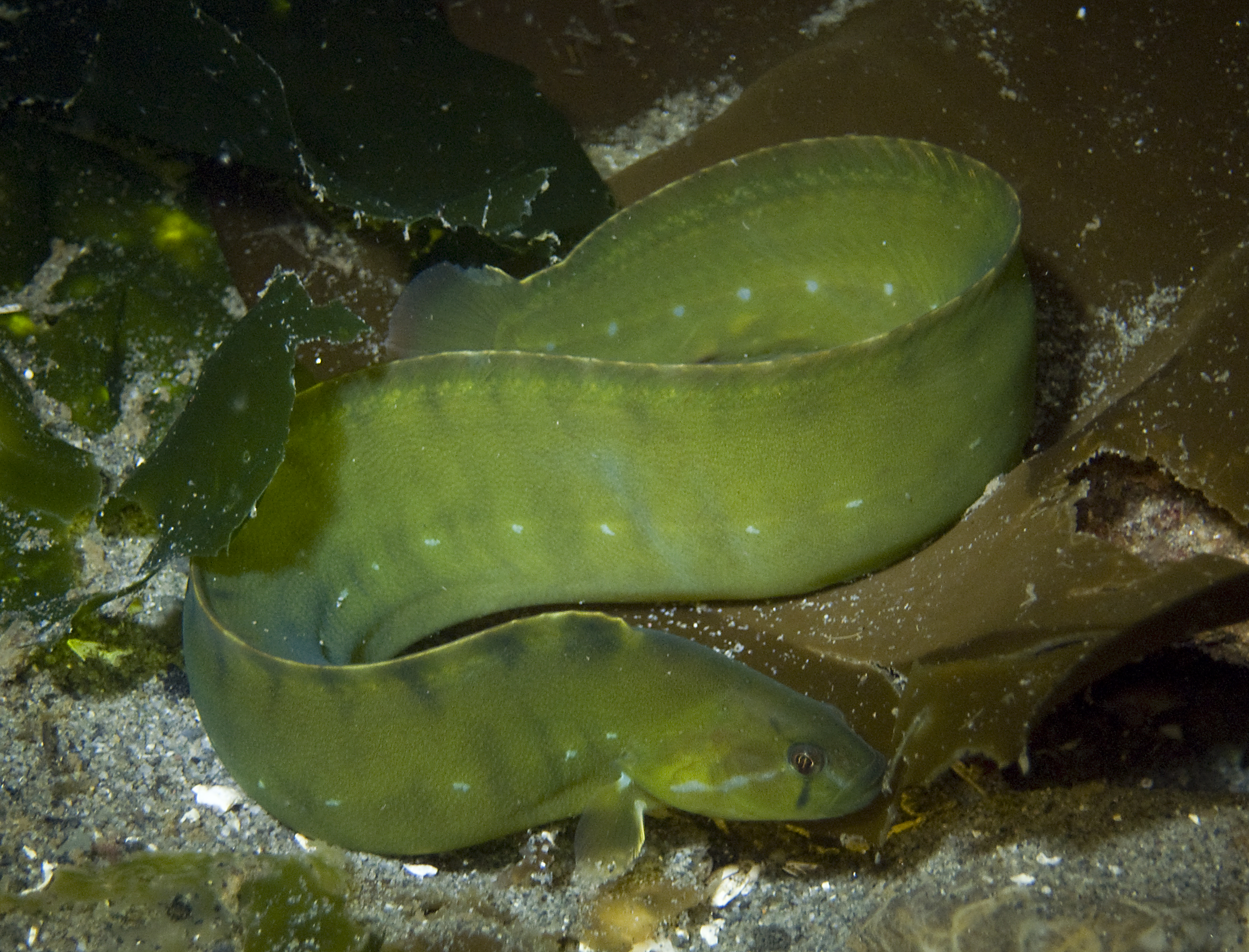 Penpoint gunnel Apodichthys flavidus photographed underwater at Three Tree near Seattle WA USA Dec 2008